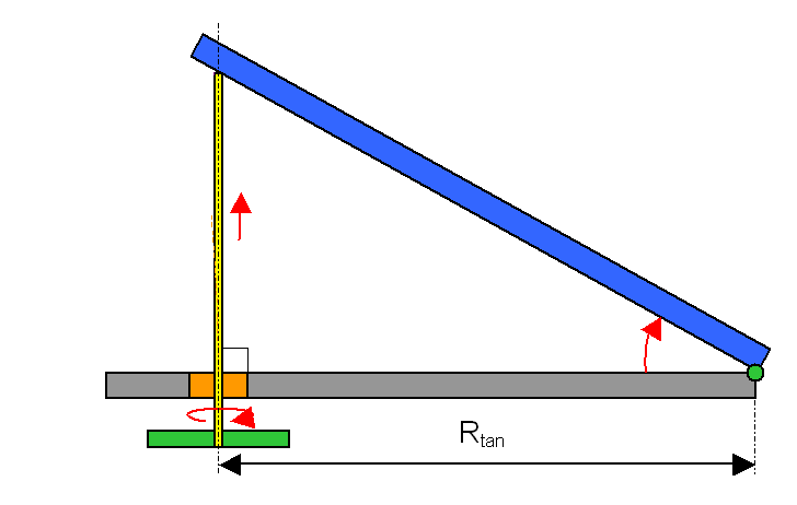 Original design of the Scotch Mount, also know as Haig mount or tangent barn door.